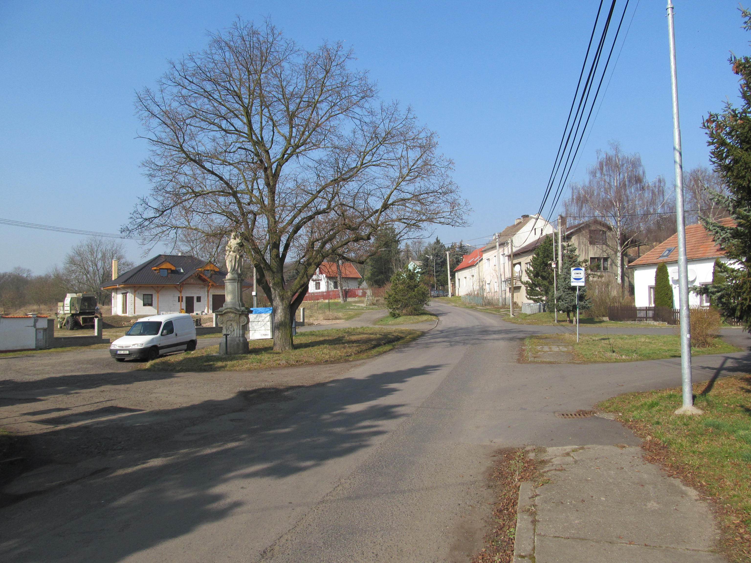 Village square in Seménkovice